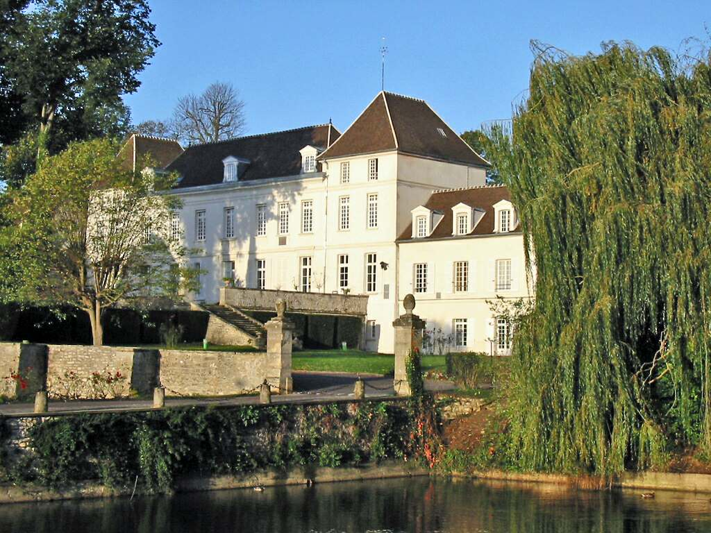 Clinic of Goussonville (Yvelines, France)